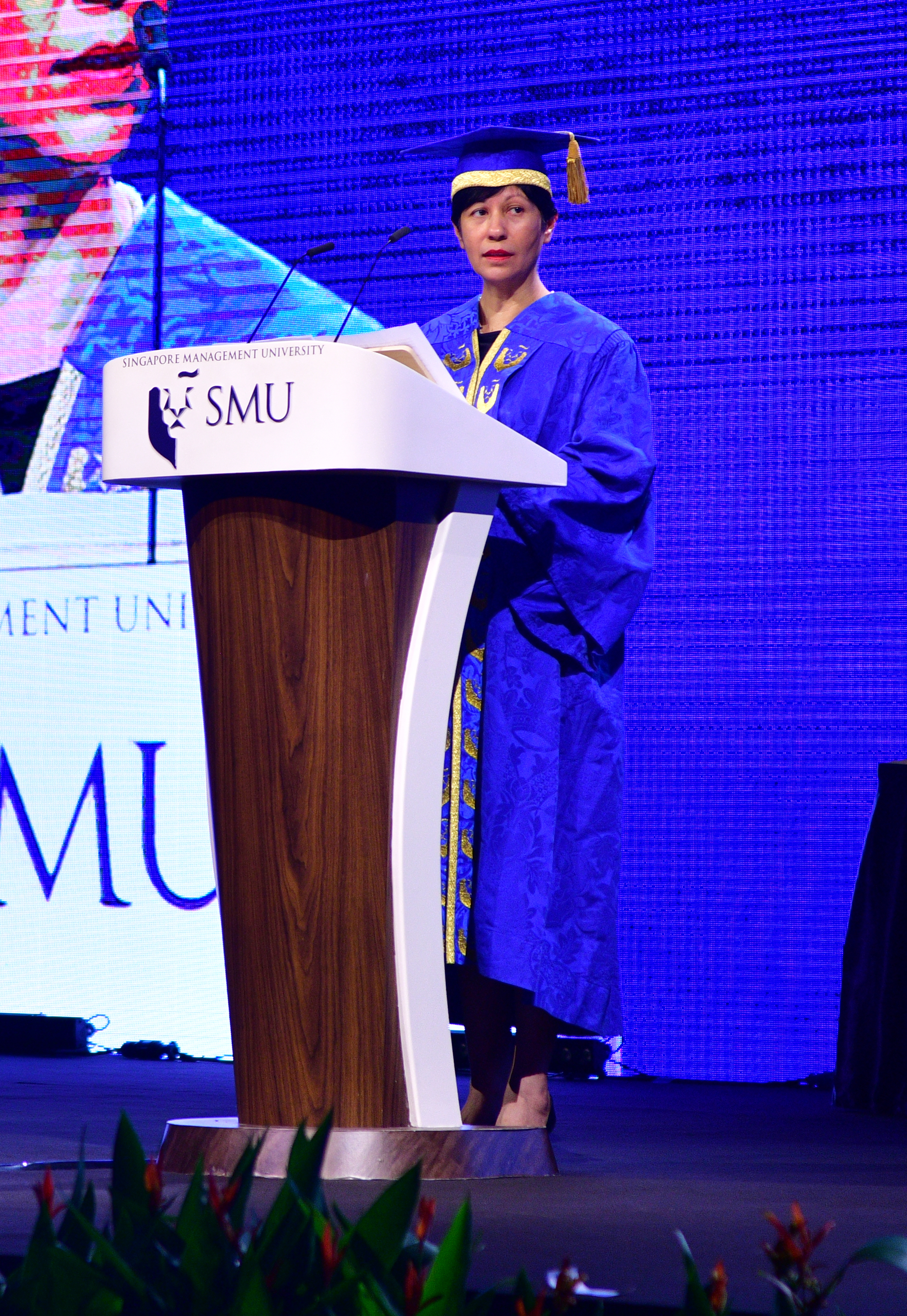 indranee rajah 2018 singapore management university school of law commencement